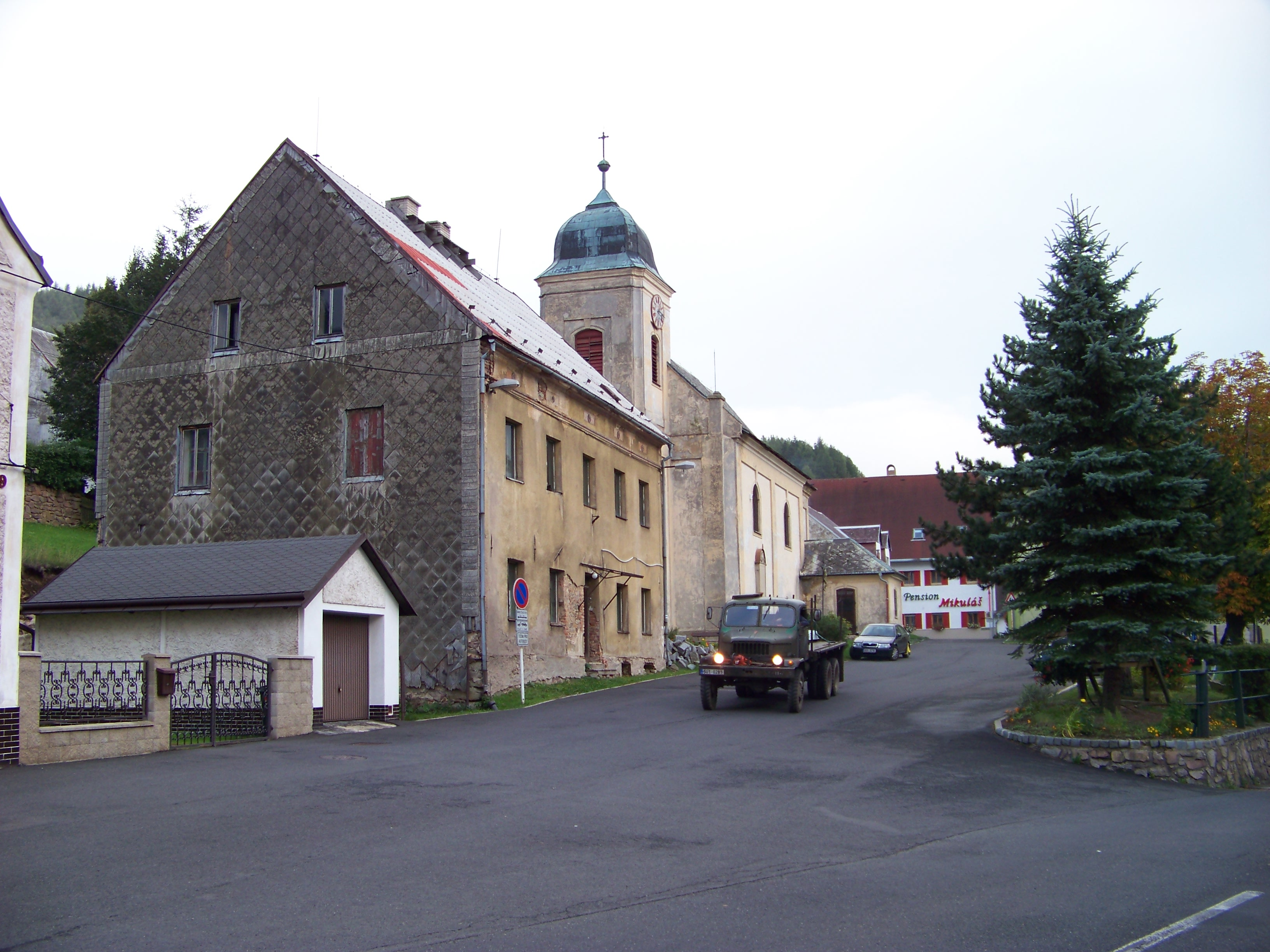 Mikulov, Teplice District, Ústí nad Labem Region, the Czech Republic. Tržní náměstí, house No. 104 and Saint Nicholas Church. - OpenStreetMap (Info)